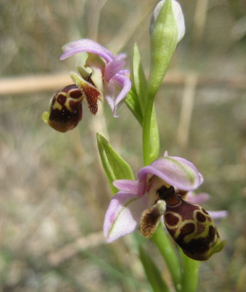 Ophrys umbilicata Çevlik, Hatay province, Turkey